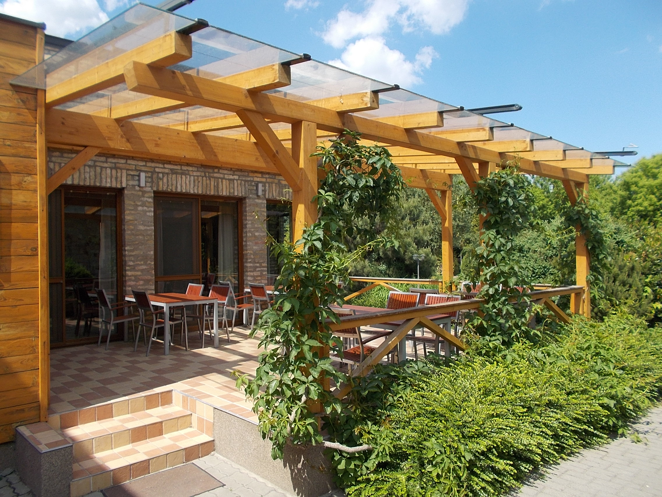 Agárd Distillery (Est. 2002), palinka restaurant terrace. - Dinnyési Street, Agárd, Gárdony, Fejér County, Hungary.